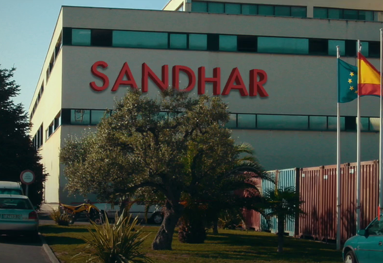 Front view of Sandhar Technologies Barcelona, S.L.